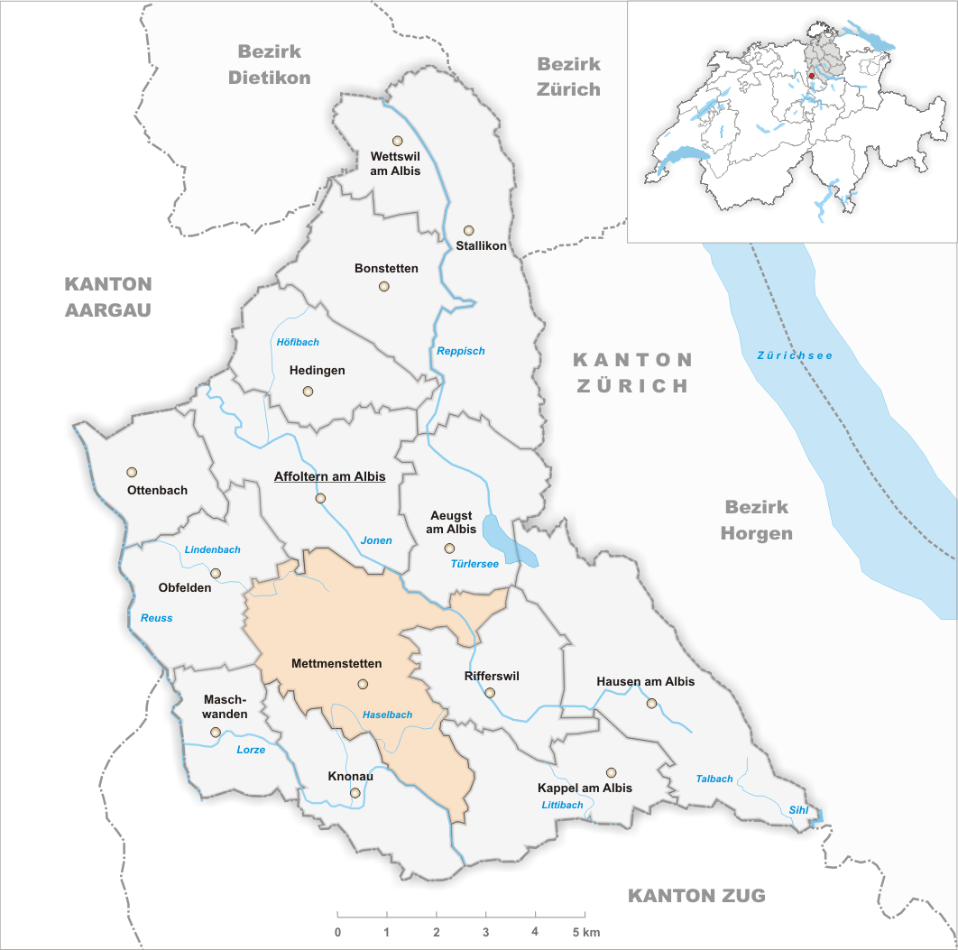 Municipality Mettmenstetten